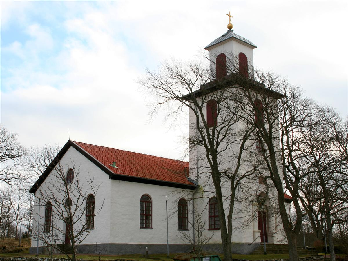 Lycke Church